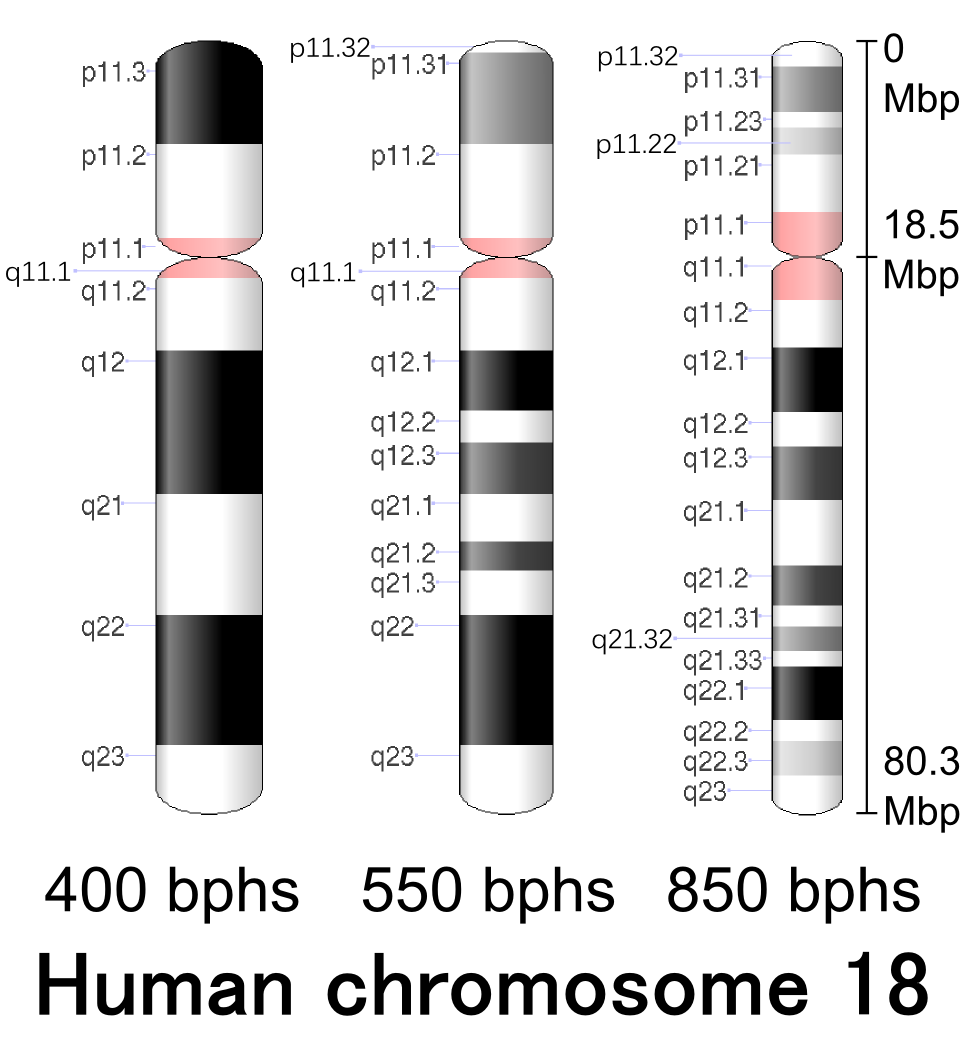 Ideograms of G-band pattern of human chromosome 18 in three different resolutions (400, 550 and 850 bphs, bands per haploid set). Different resolutions are corresponding to different band patterns observed through mitotic phase (about relation between banding resolution and mitotic phase, see, for example, Fig.3 in W Sethakulvichaia (2012)). Legend: Black and gray is Giemsa positive. Red is centromere. Light blue is variable region. Dark blue is stalk. At the right, centromere position (center) and q arm terminus position (bottom), counted from p arm terminus (top) in Mbp (mega base pairs), are labeled. Physical length (sometimes referred as "absolute length") is not labeled. Because physical length of chromosomes vary while mitosis. (typical human chromosome physical length is in the order of from several micrometers to ten and several micrometers. See, for example, Category:Human chromosome images with scale bars.).